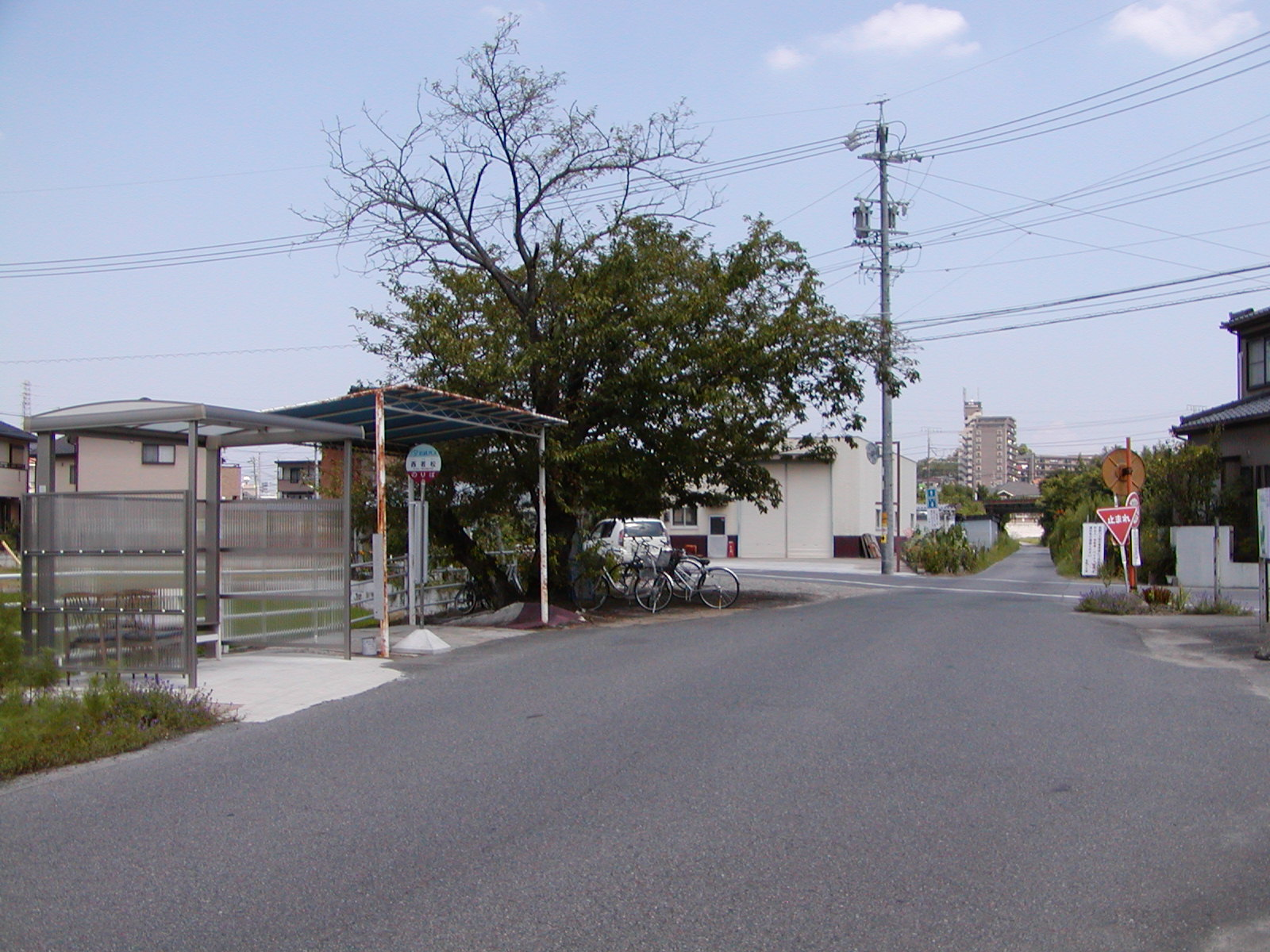 Meitetsu Bus Nishi-Wakamatsu Bus Stop (formely Nishi-Wakamatsu Tram Stop on the Nagoya Railroad Fukuoka Line)